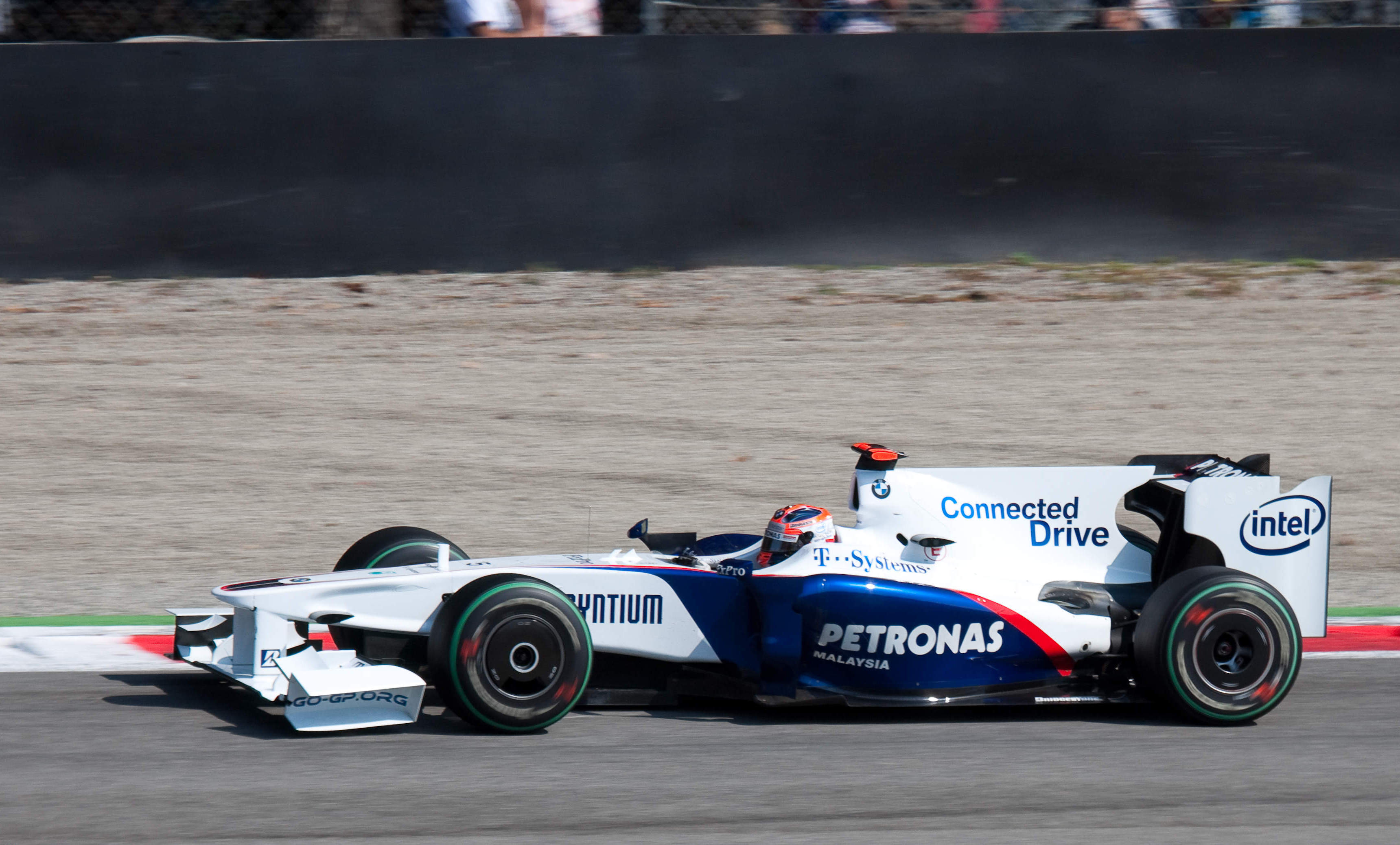 Robert Kubica driving for BMW Sauber at the 2009 Italian Grand Prix.